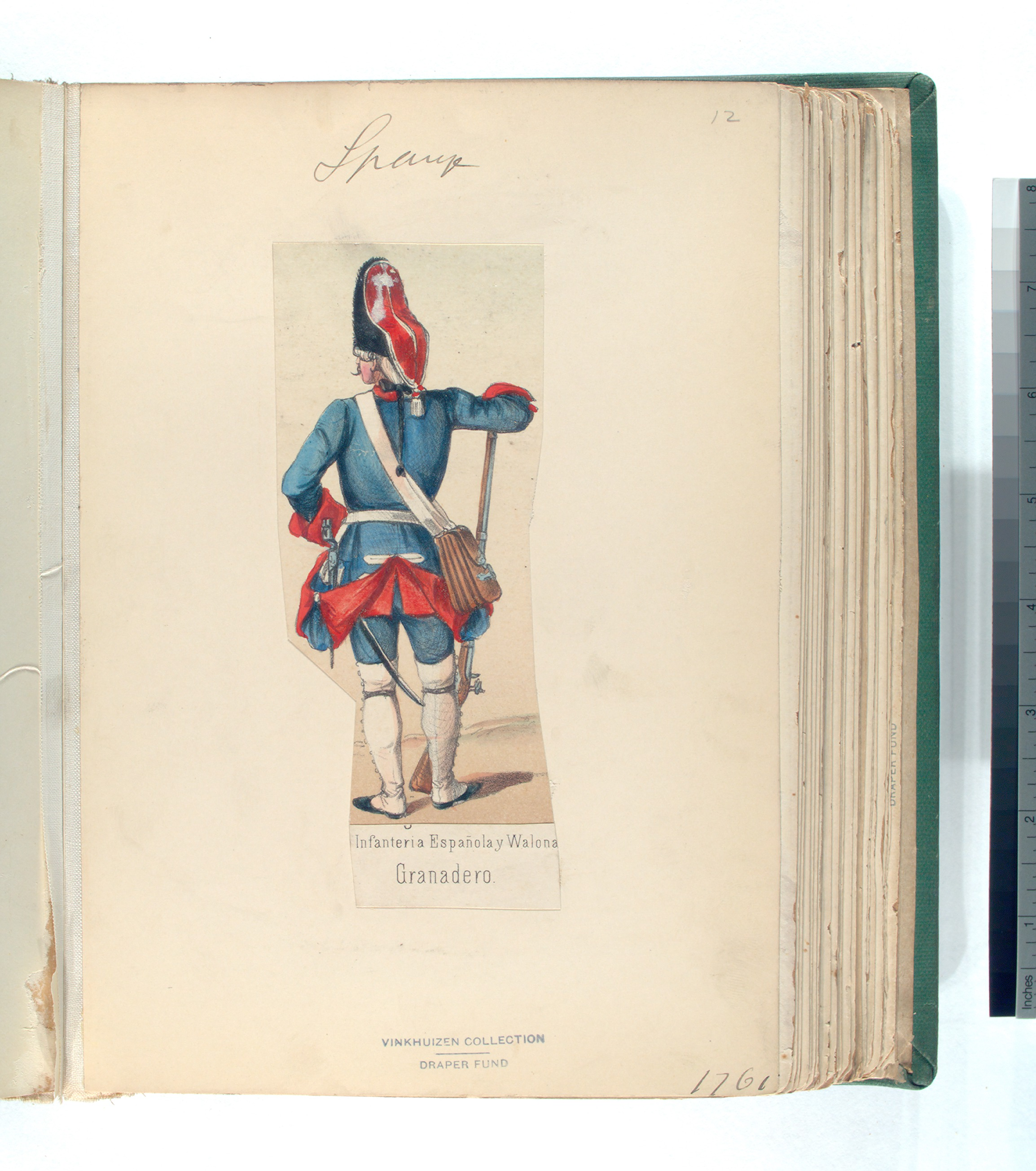 Draper Fund